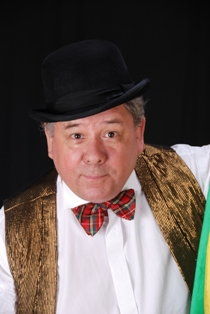 Rainer Gohde